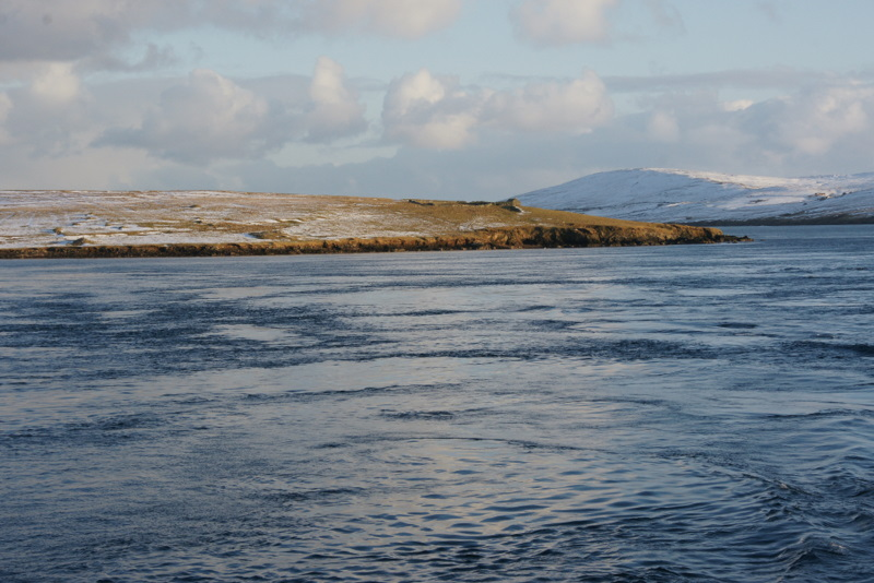 Bigga, Yell Sound Bigga is in the island in the foreground, and the snow-covered Hill of Evra Houll on Yell.